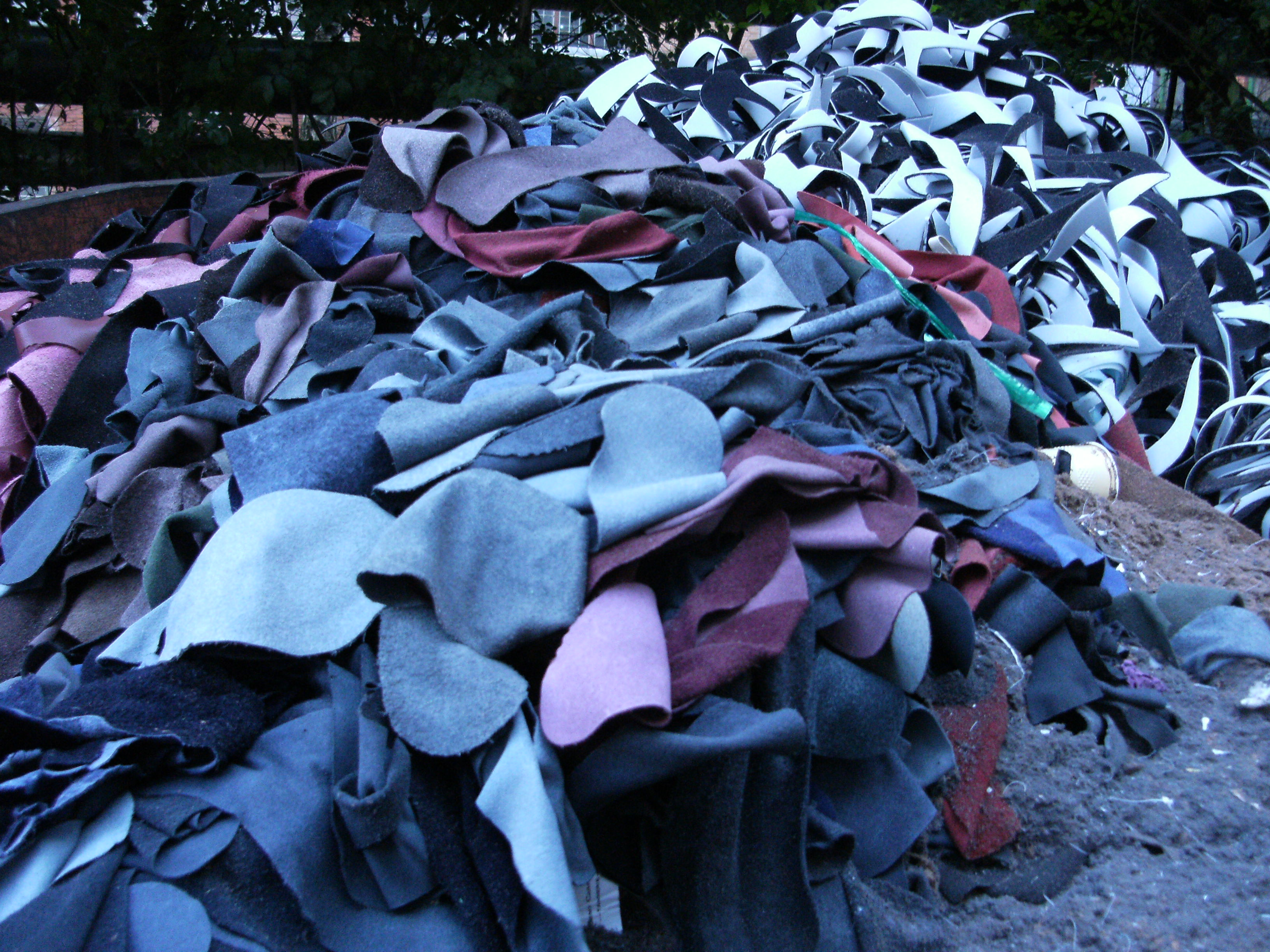 Discarded pieces of leather, Zlín.